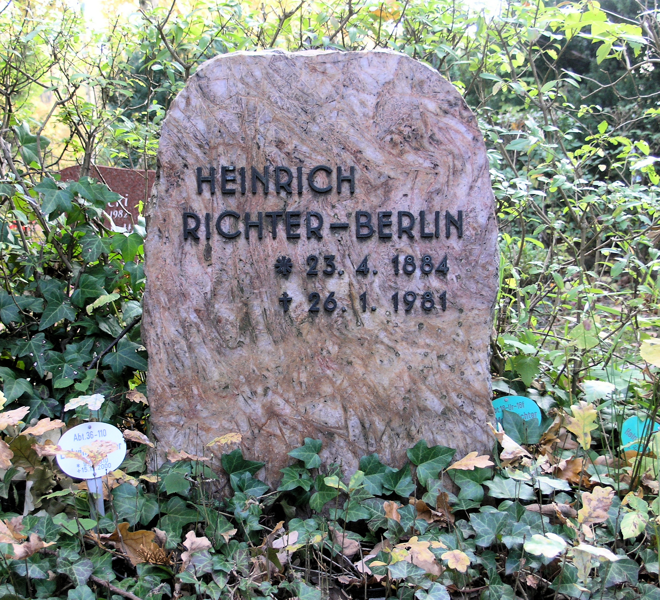 "Ehrengrab" (grave of honor), Heinrich Richter-Berlin, Stubenrauchstraße 43-45, Berlin-Friedenau, Germany Koordinate:52°28′33″N 13°19′22″E / 52.47583°N 13.32278°E